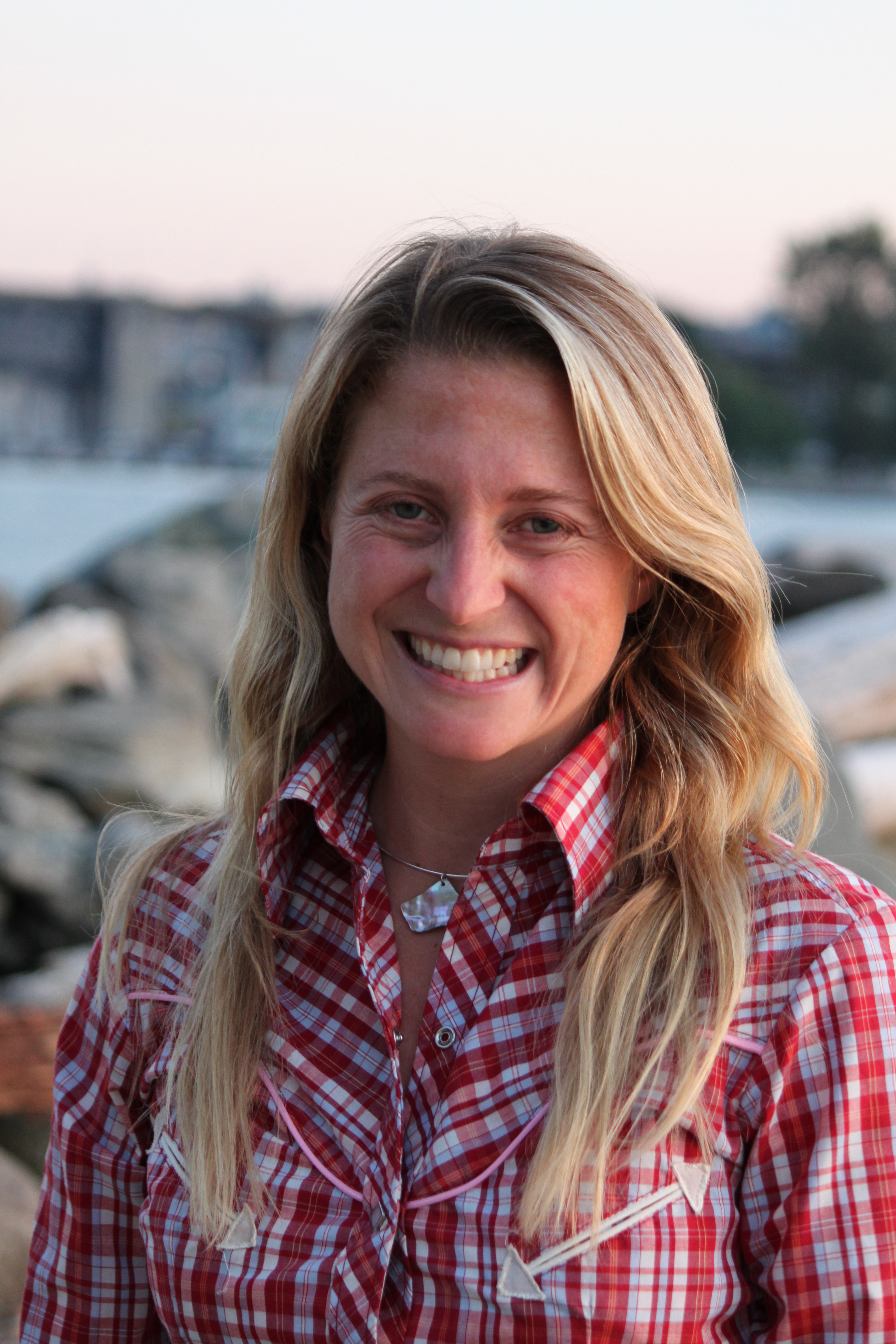 SFU ecologist Anne Salomon is one of 17 authors on a newly published paper that aims to save natural history research from dying of neglect. Anne Katherine Salomon (1974) is a Canadian applied marine ecologist. She is an associate professor with the School of Resource and Environmental Management in the Faculty of Environment at Simon Fraser University.